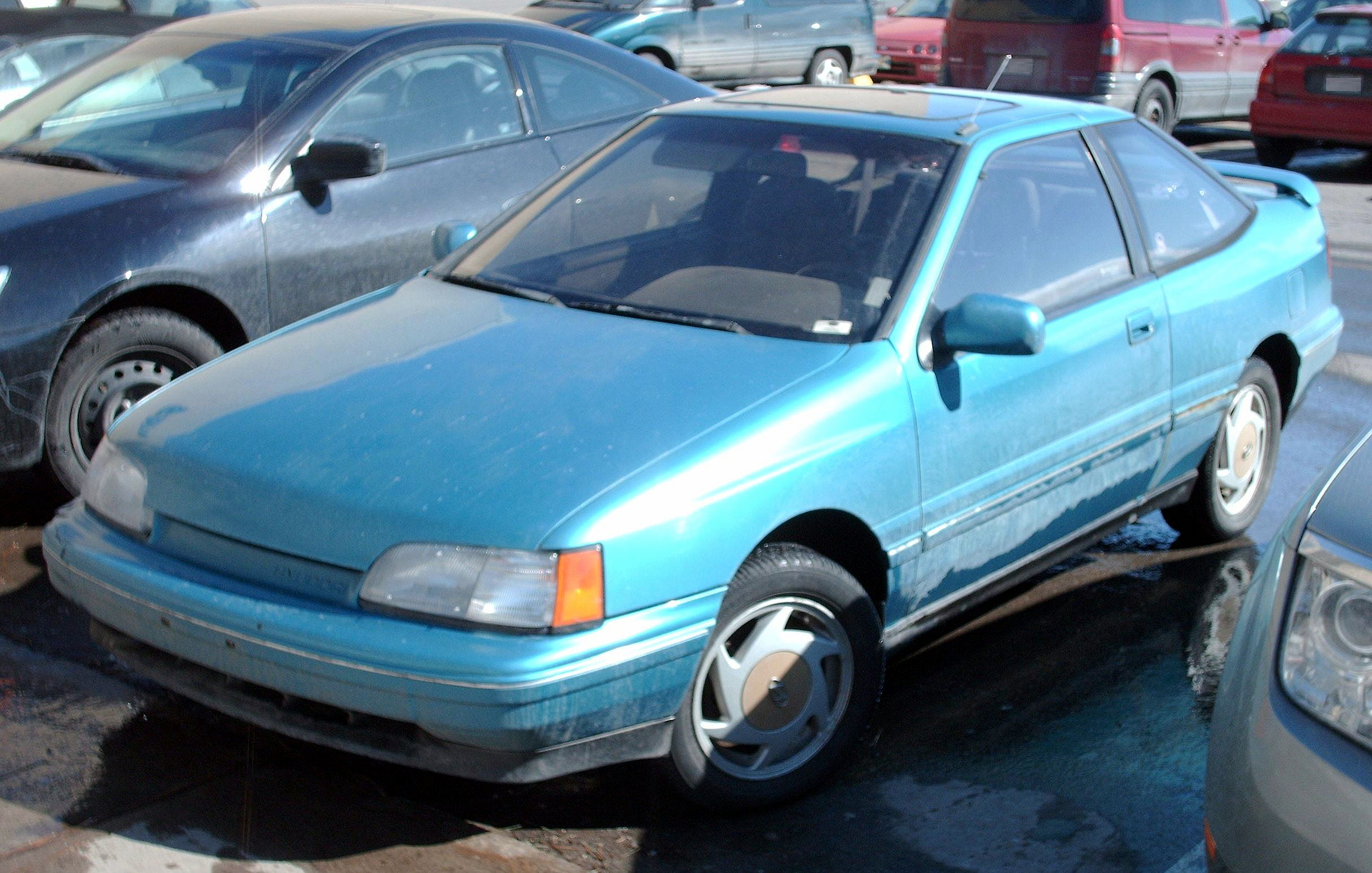 Hyundai Scoupe photographed in Montreal, Quebec, Canada.